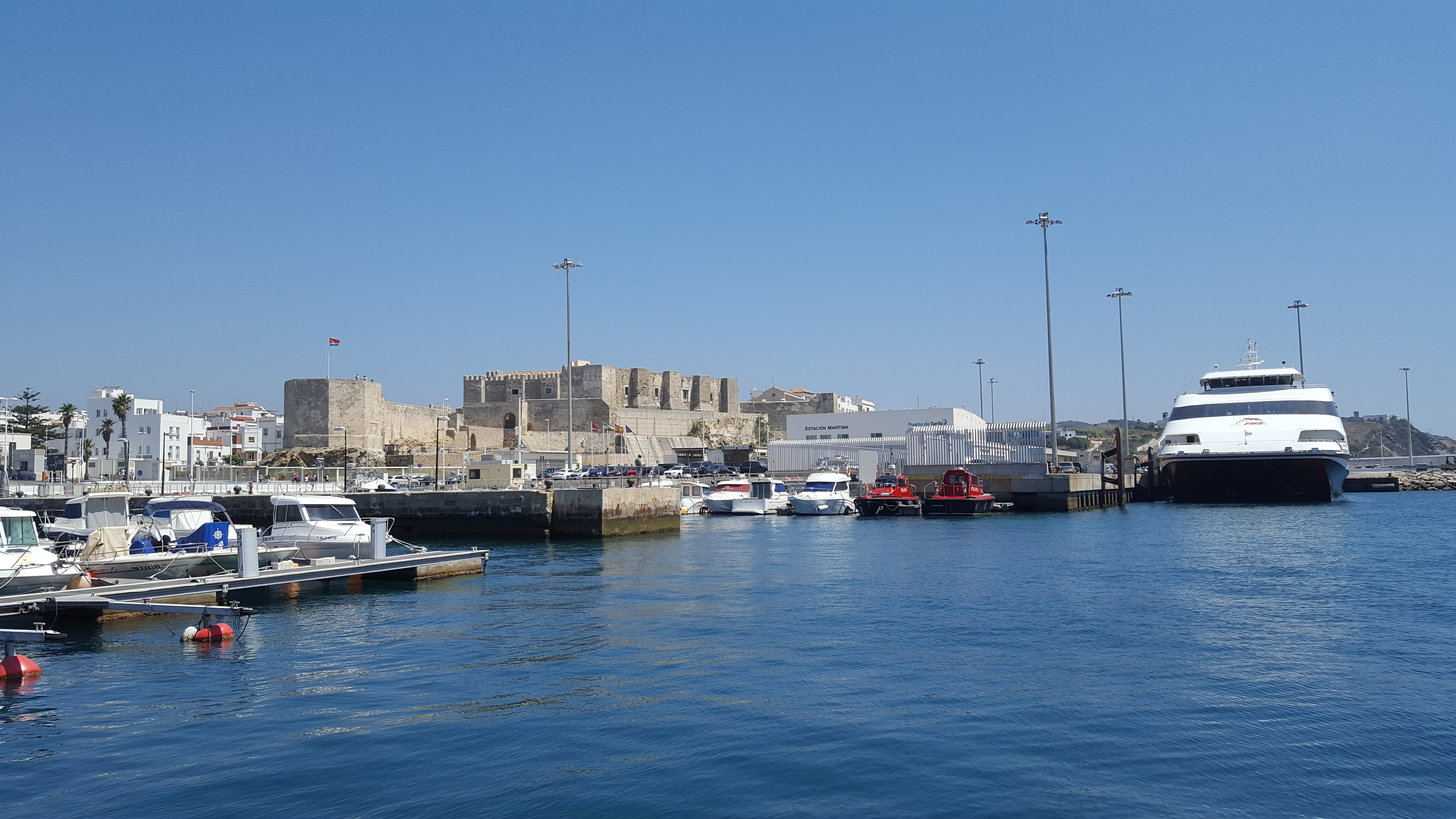 Harbour of Tarifa